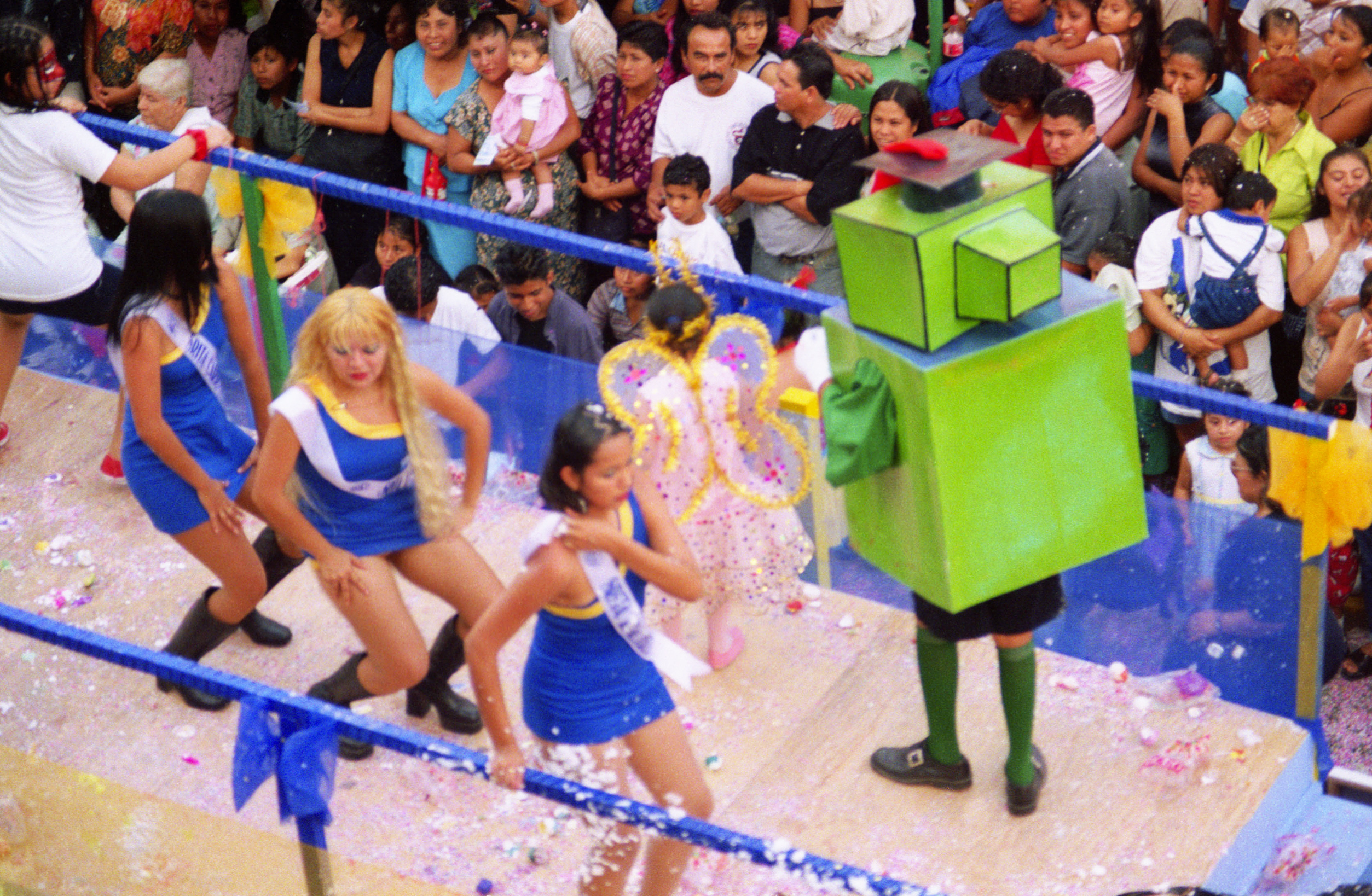 Festival dancers during Petroleum Day, Poza Rica, Veracruz, Mexico